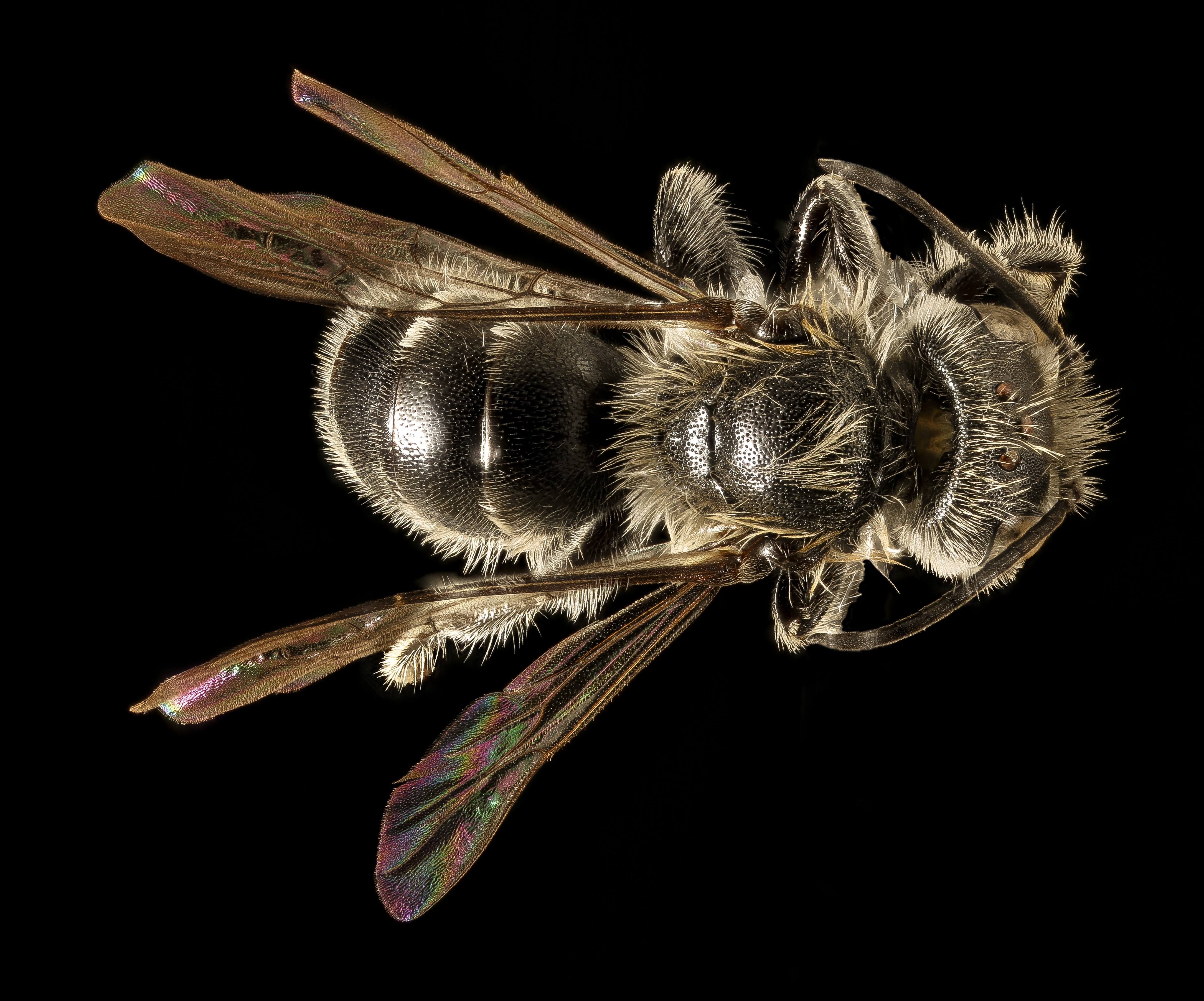 A small, hole nesting bee, collected in Charles County Maryland, Hoplitis simplex is uncommonly found and is a specialist on the plant genus Phacelia. Bee specialists such as this little Hoplitis are fundamentally linked to the world's plant biodiversity...not Phacelia...no H. simplex. Photograph by Hannah Sutton. 15:46, 8 July 2016 (UTC)15:46, 8 July 2016 (UTC) 0 15:46, 8 July 2016 (UTC)15:46, 8 July 2016 (UTC) All photographs are public domain, feel free to download and use as you wish. Photography Information: Canon Mark II 5D, Zerene Stacker, Stackshot Sled, 65mm Canon MP-E 1-5X macro lens, Twin Macro Flash in Styrofoam Cooler, F5.0, ISO 100, Shutter Speed 200 Beauty is truth, truth beauty - that is all Ye know on earth and all ye need to know " Ode on a Grecian Urn" John Keats You can also follow us on Instagram - account = USGSBIML Want some Useful Links to the Techniques We Use? Well now here you go Citizen: Art Photo Book: Bees: An Up-Close Look at Pollinators Around the World Basic USGSBIML set up: USGSBIML Photoshopping Technique: Note that we now have added using the burn tool at 50% opacity set to shadows to clean up the halos that bleed into the black background from "hot" color sections of the picture. PDF of Basic USGSBIML Photography Set Up: ftp://ftpext.usgs.gov/pub/er/md/laurel/Droege/How%20to%20Take%20MacroPhotographs%20of%20Insects%20BIML%20Lab2.pdf Google Hangout Demonstration of Techniques: or Excellent Technical Form on Stacking: Contact information: Sam Droege 301 497 5840